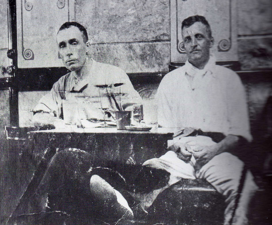 James H. Sutherland, author of Adventures of an elephant hunter with his close friend Major Gordon H. Anderson, author of African safaris.